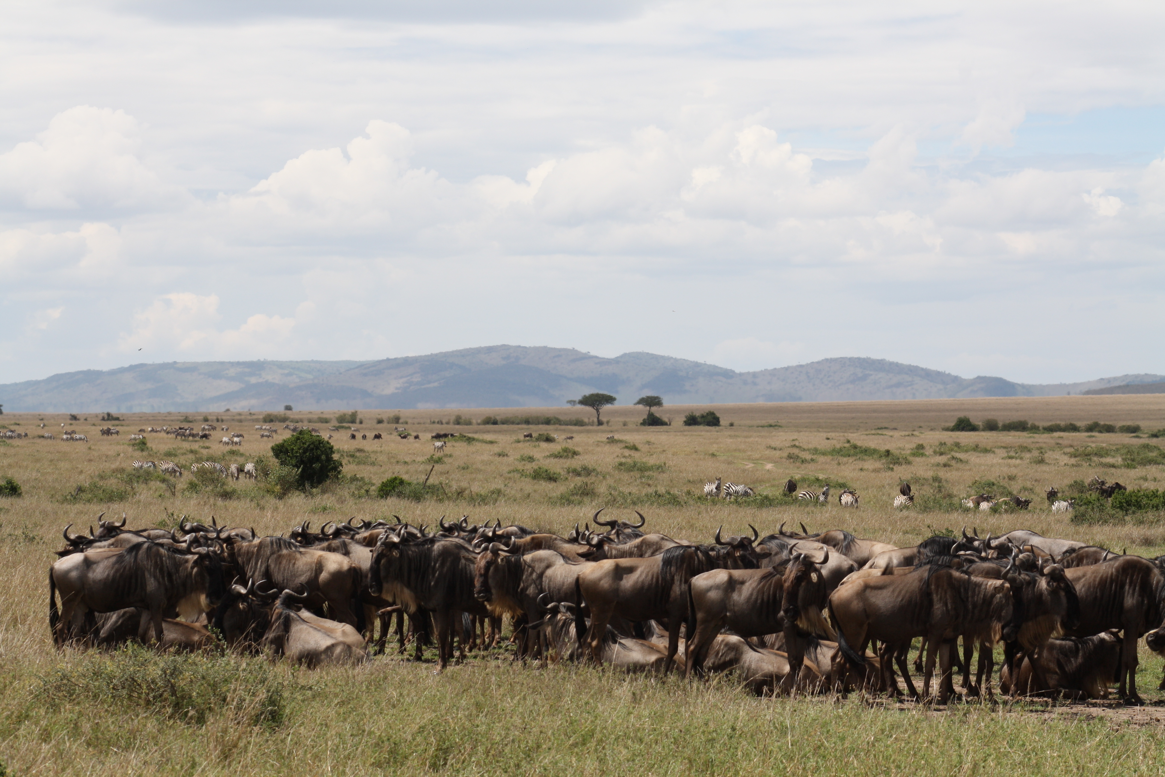 Of course, this was off season for the Great Migration: that occurs in around June- July. This appeared to be the reverse migration, animals returning from Tanzania. Here is another view of the group of migrating wildebeest. The actual migration of June- July is of course more dramatic, and we have thousands of animals rushing off into Tanzania. This is but a 'trailer' of the big movie. I swore to return to Kenya sometime in the future, during June- July to witness the great migration. (Oct/ Nov 2010)